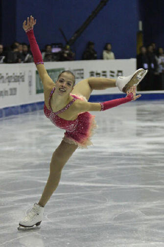 Carolina Kostner(ITA) competes her long program at the 2008-2009 Grand Prix Final.